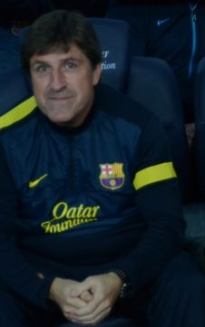 Jordi Roura, just before the match between FC Barcelona and Celta de Vigo.